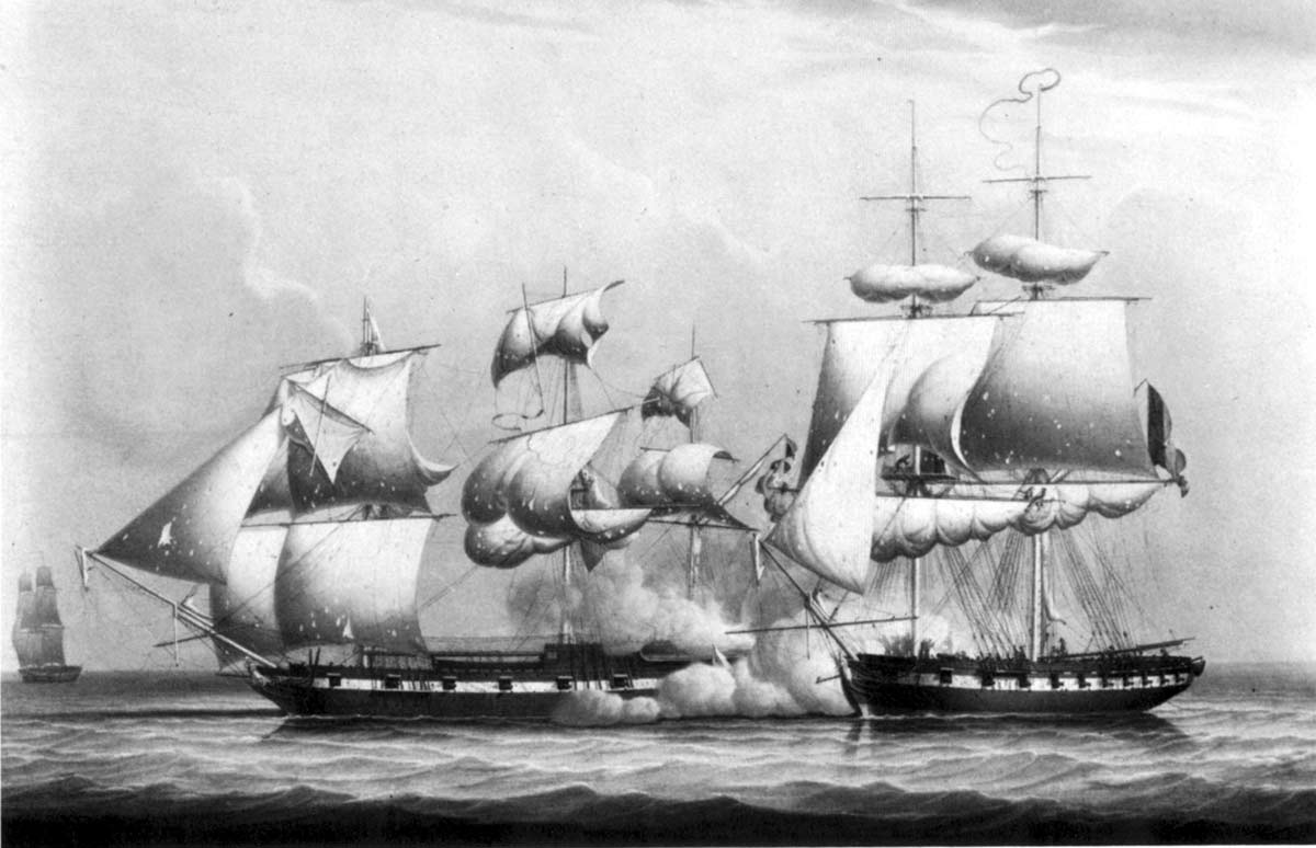 Action between the Will, of Liverpool, and a French privateer, on 21 February 1804 (1800 ?). Height: 88.9 cm, width: 127 cm